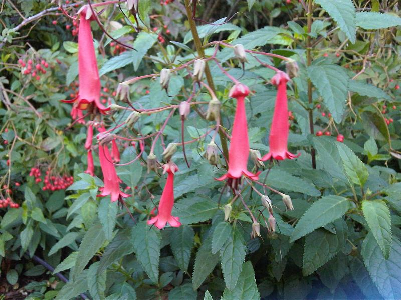 Phygelius capensis in Kew Gardens, England.